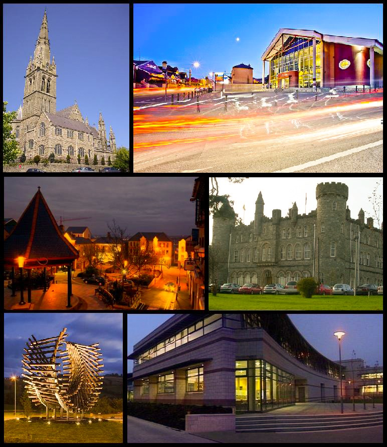 This is a montage of images of Letterkenny. All the images included are Creative Commons. All rights and recognition goes to their respective owners.